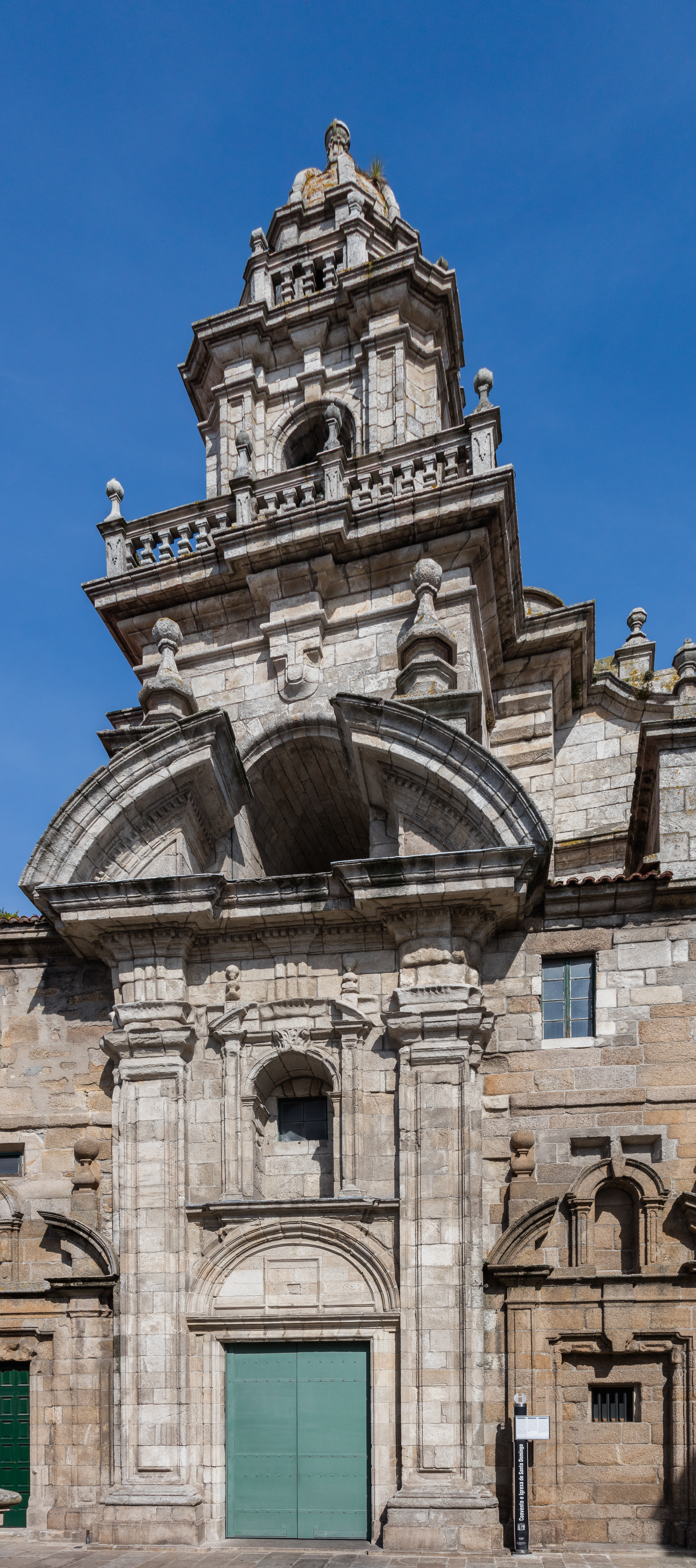 St Domingo Monastery, La Coruña, Spain